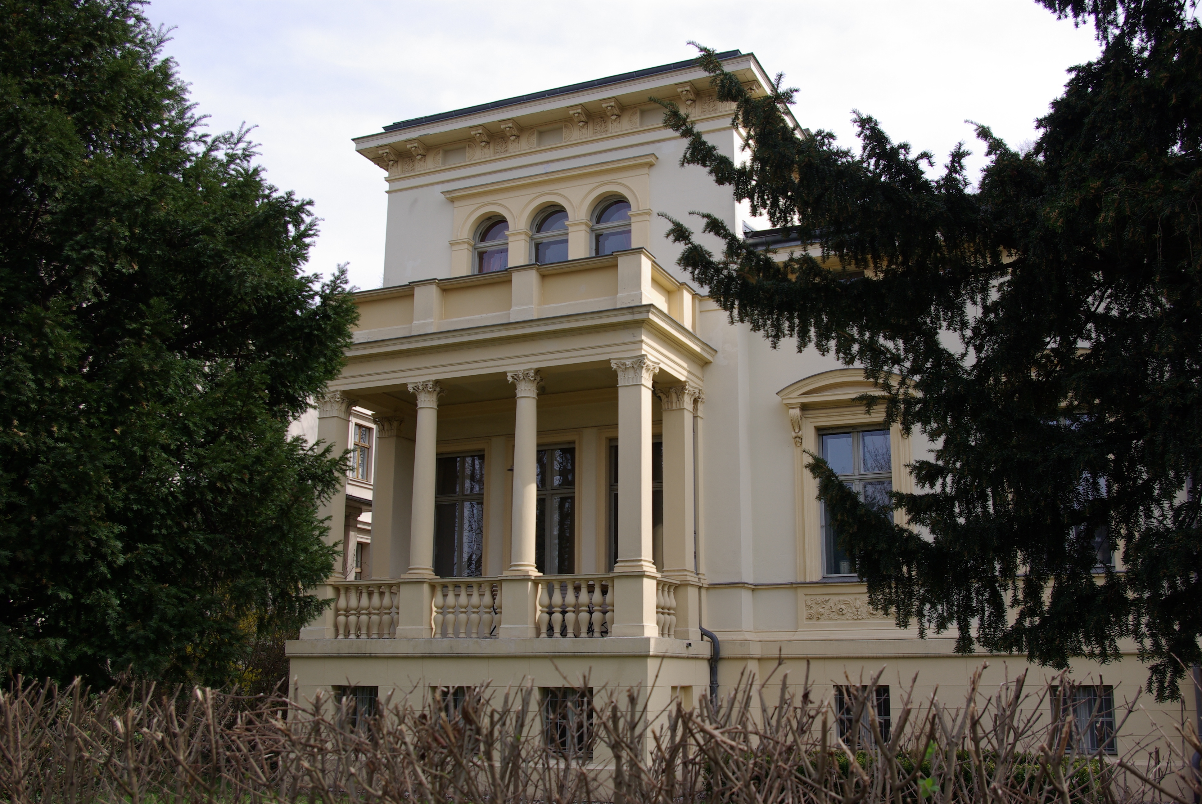 Potsdam in Germany. The house Puschkinallee 2, Villa Schröder, before 1875, presumable Friedrich August Hasenheyer, is a listed building.